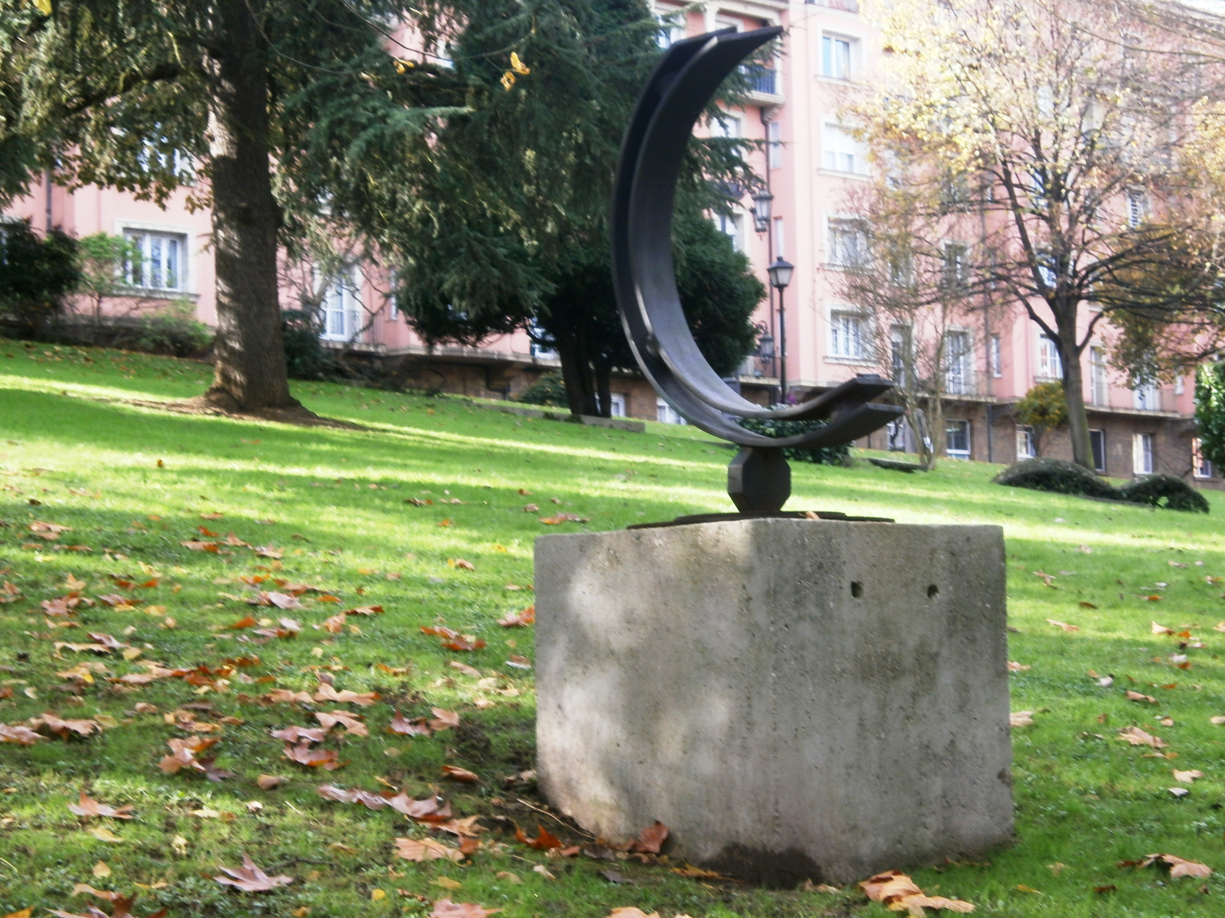 XX trobada de peñas barcelonistas en Oviedo-2